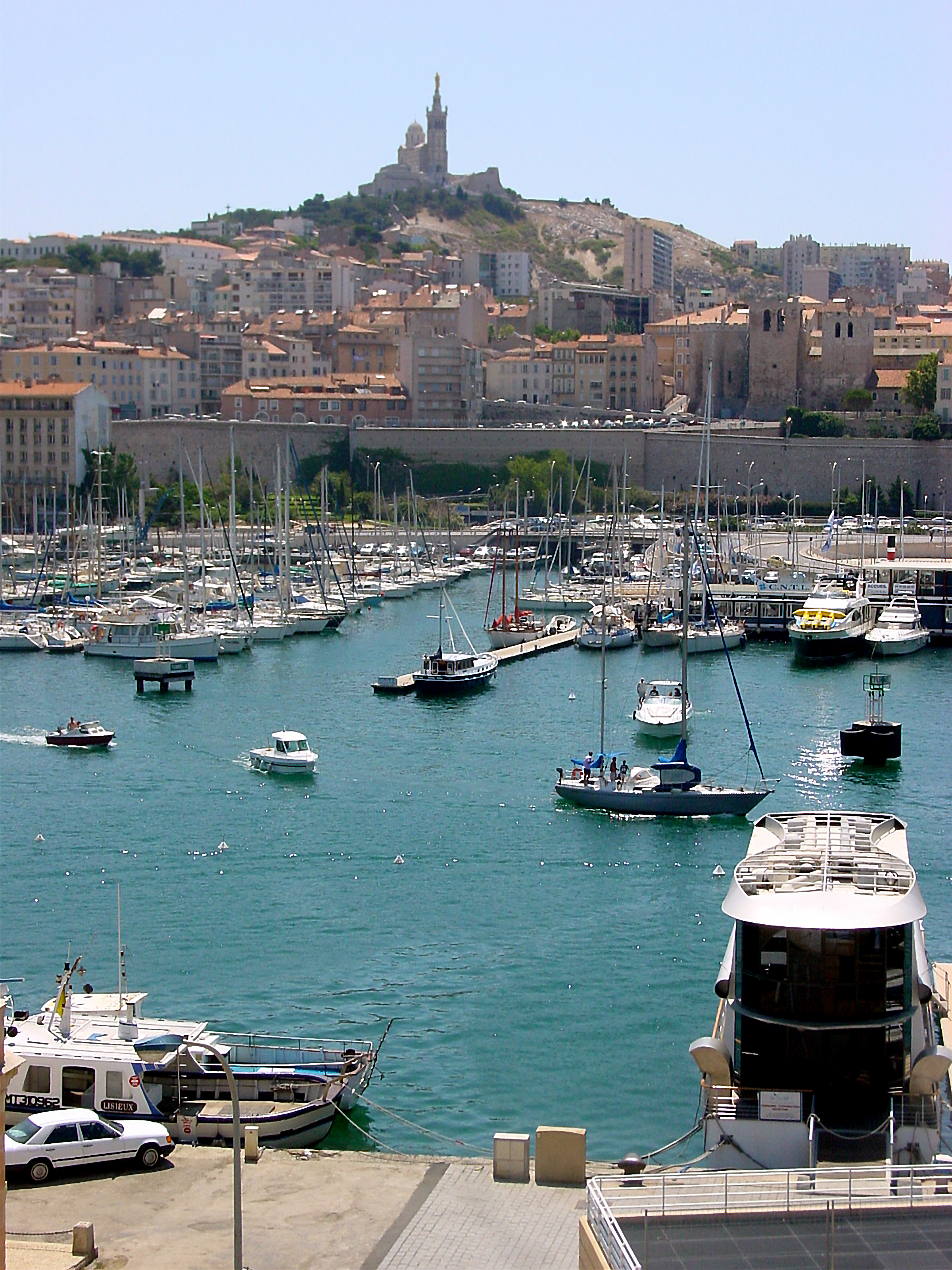 the harbour of Marseille